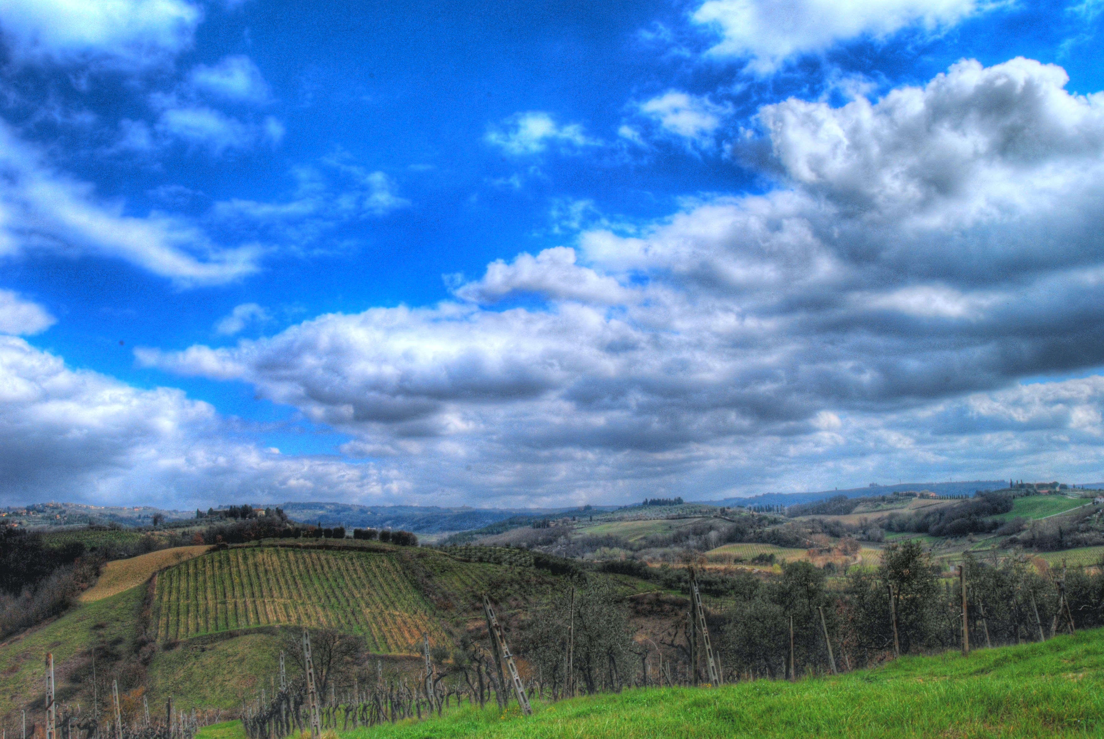 Vineyards in the Chianti region